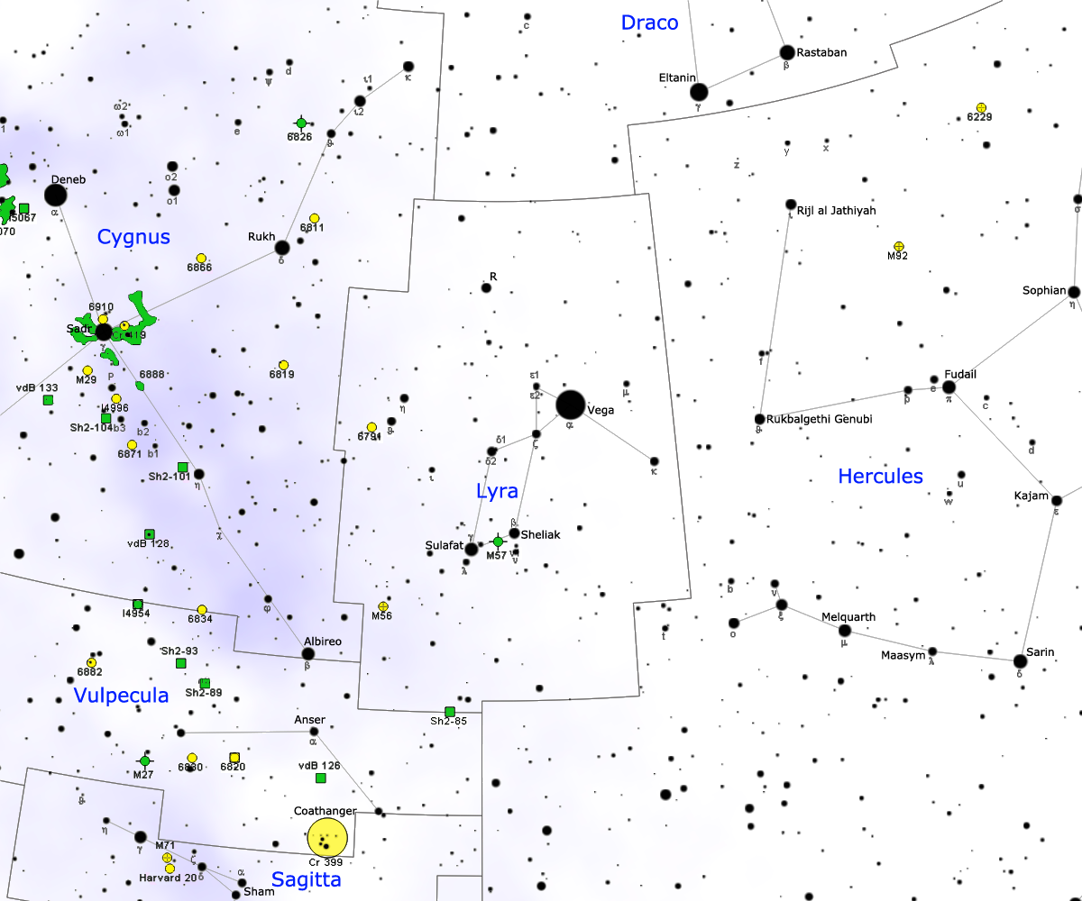 Map of Lyra